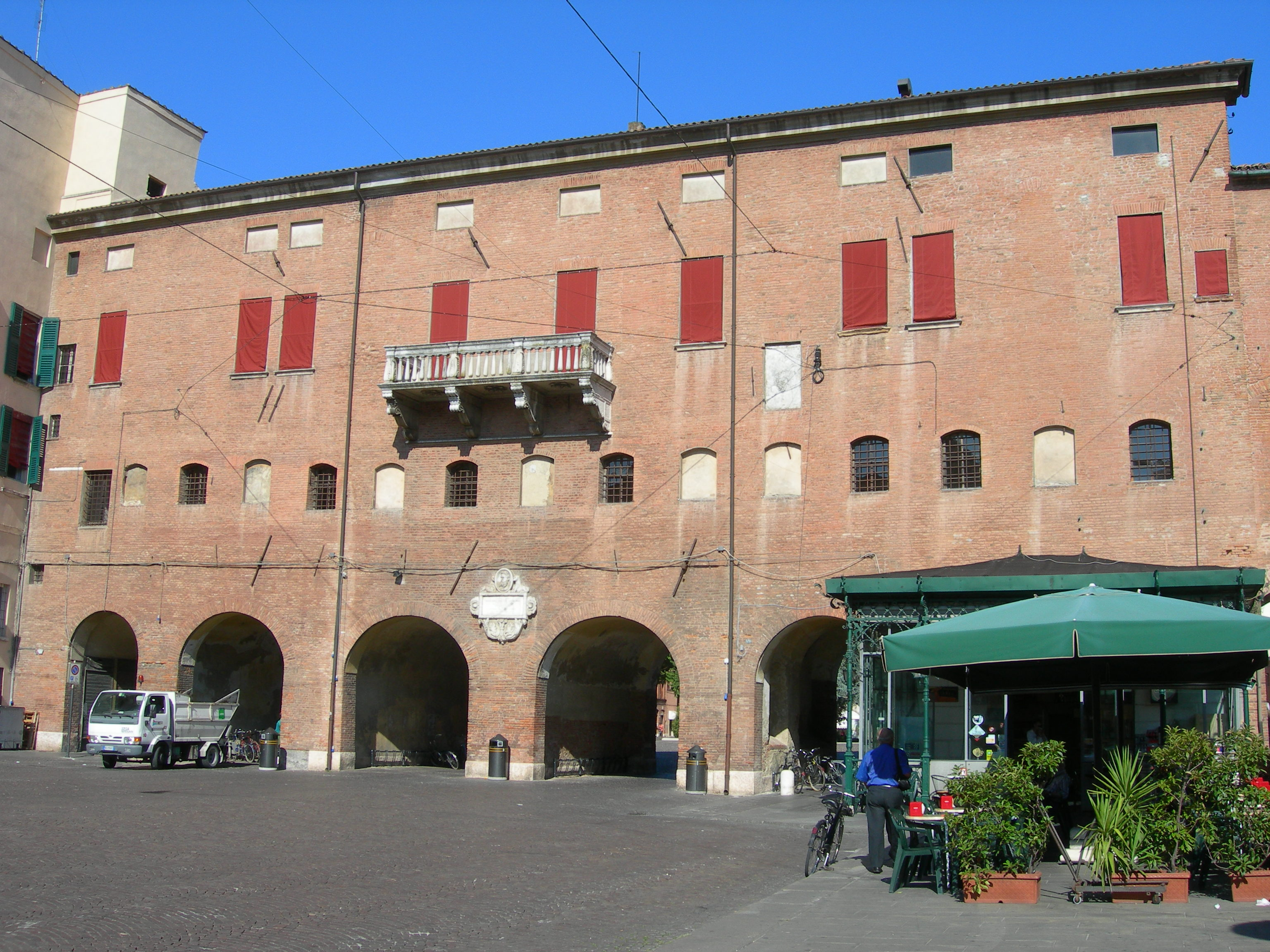 The Via Coperta